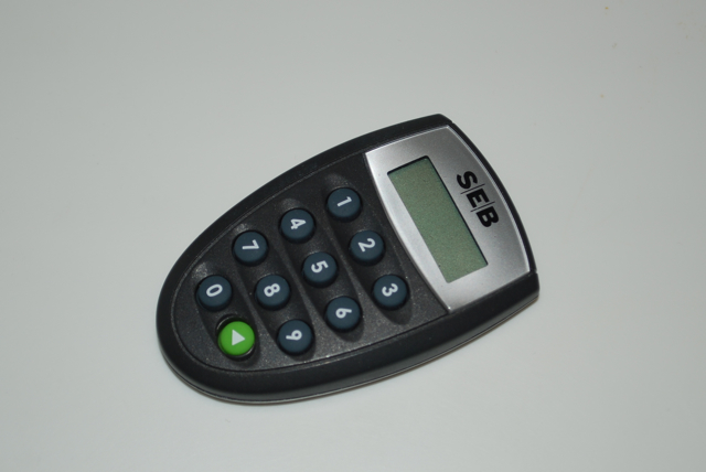 Digipass.